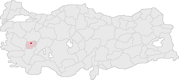 Shows the location of the Uşak province in Turkey